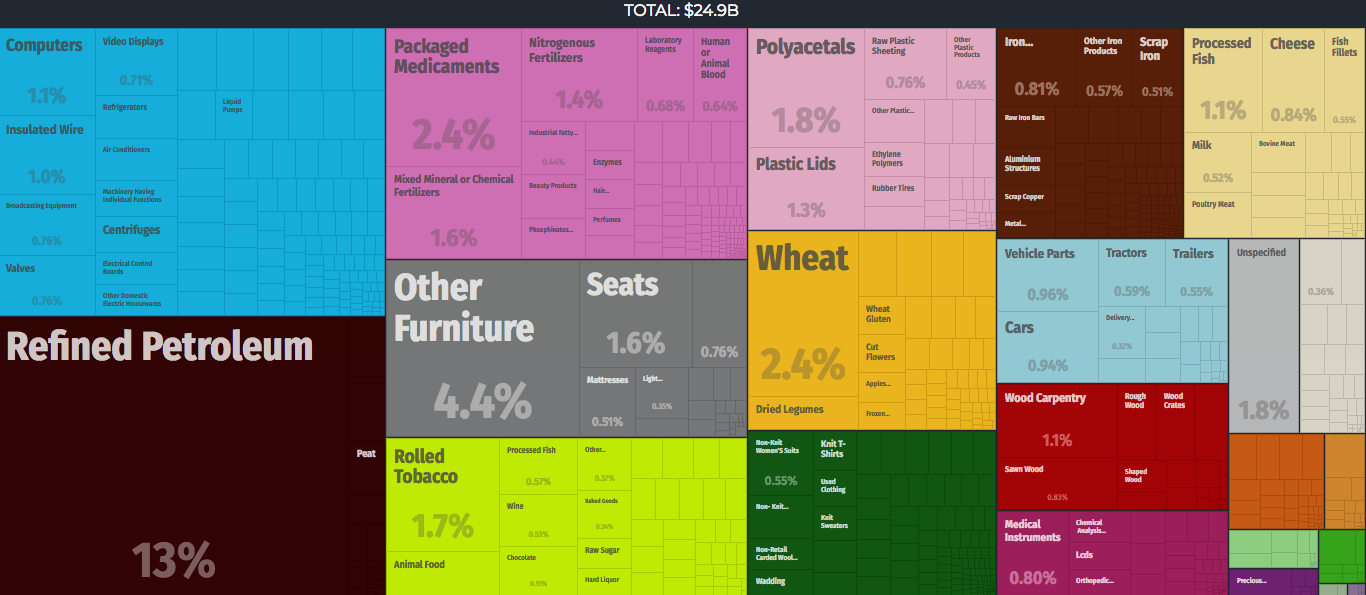 Export structure of Lithuania 2016